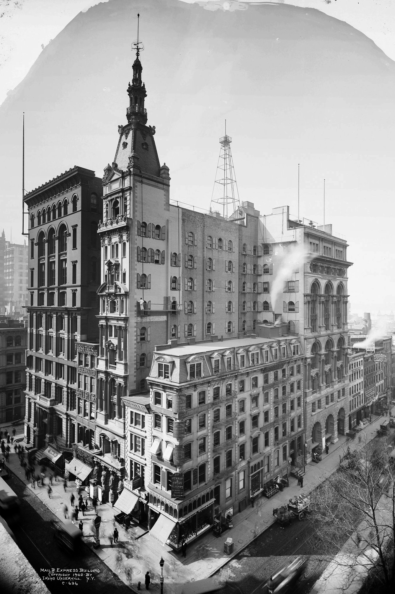 The Mail and Express Building, at the site of the current building 195 Broadway. Copyright 1902.